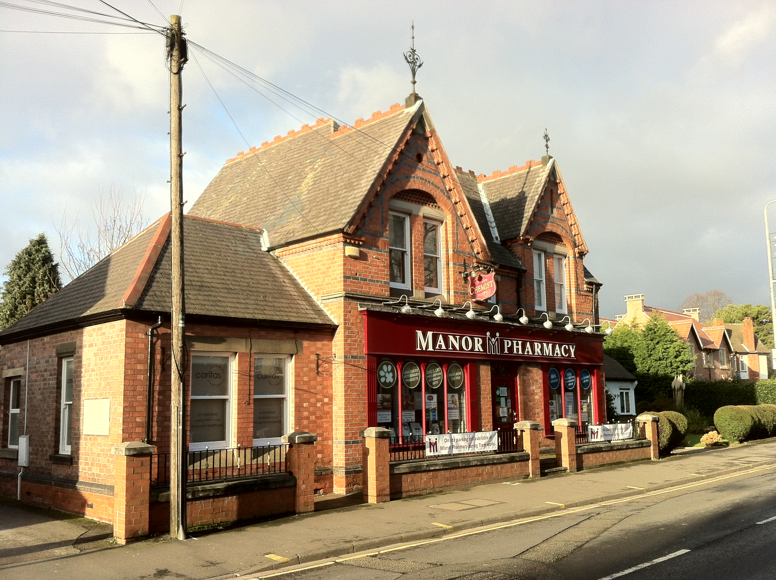 Built by Brewill and Baily as Beeston Police Station